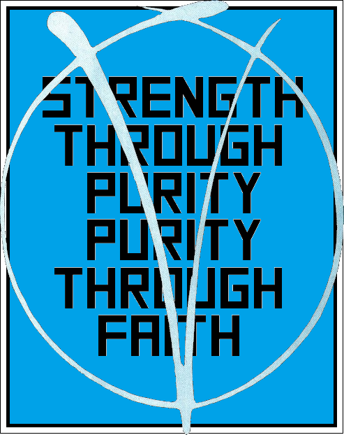 The poster from V for Vendetta (changed to "Strength through unity, unity through faith" in the 2005 film adaption).